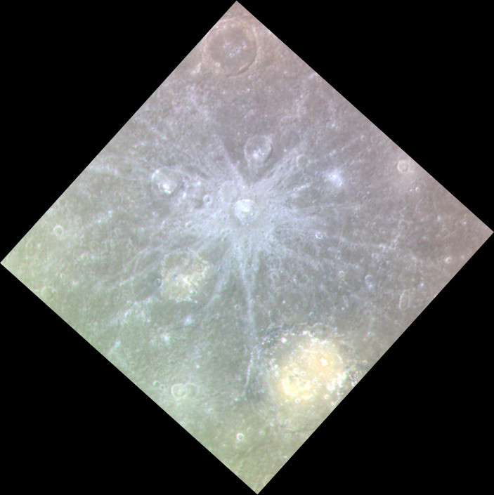 Bek crater, with bright ray system, on Mercury. Lermontov crater is in lower right (yellowish floor). Approximate color representation combining three images acquired by MESSENGER Wide Angle Camera (EW0210937344I, EW0210937352G, EW0210937346F) with I (996.2 nm), G (748.7 nm), and F (433.2 nm) filters. Combined in GIMP software as RGB (Red-Green-Blue), and then rotated so that north is up. Statistics for I image: Emission Angle: 0.3 Incidence Angle: 27.9 Latitude: 19.6 Longitude: 309.3 Phase Angle: 28.1